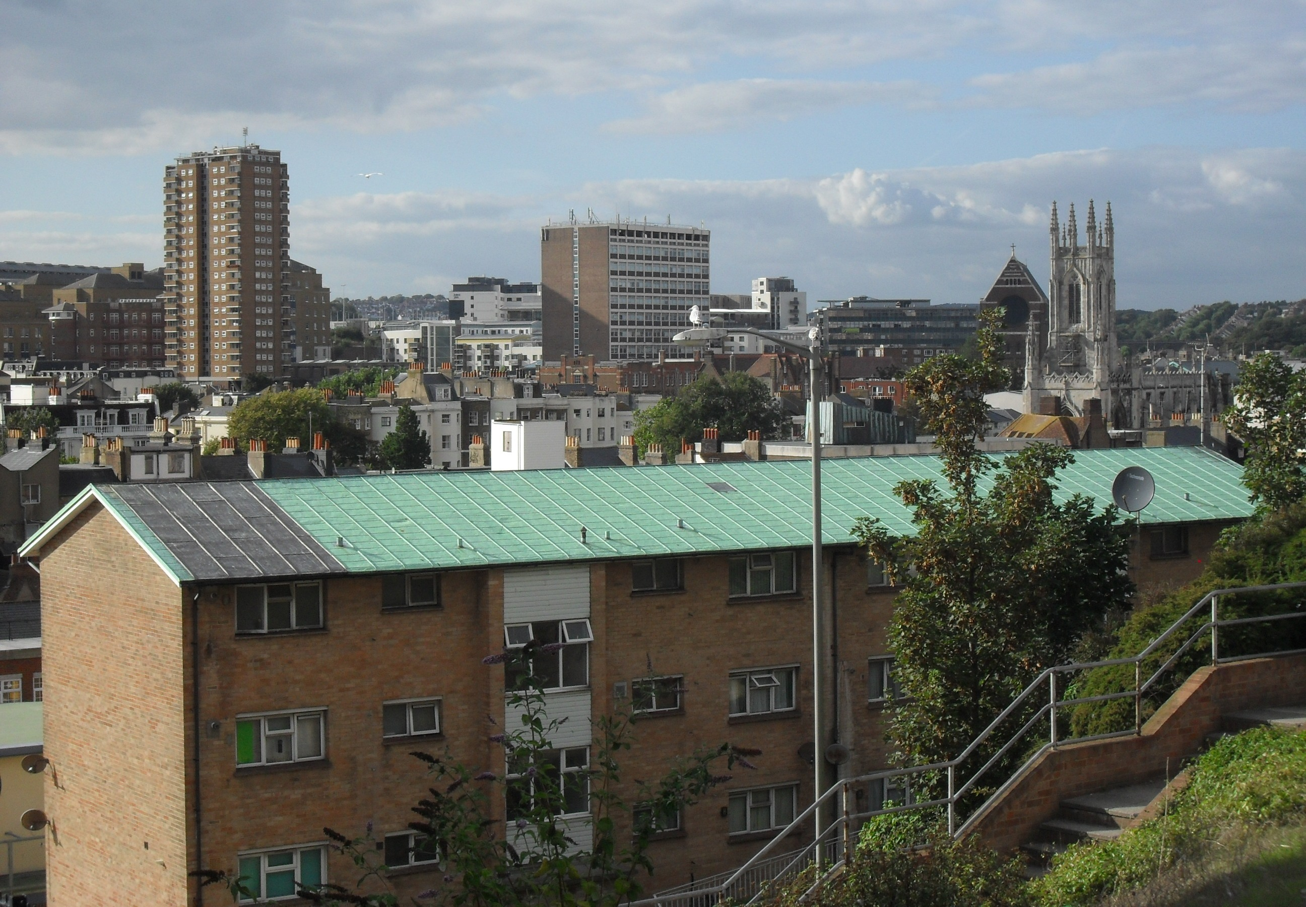 A view northwestwards across central Brighton from the junction of Sussex Street and John Street in the Carlton Hill area of the city, showing the extensive views offered by that area's steep changes of elevation.